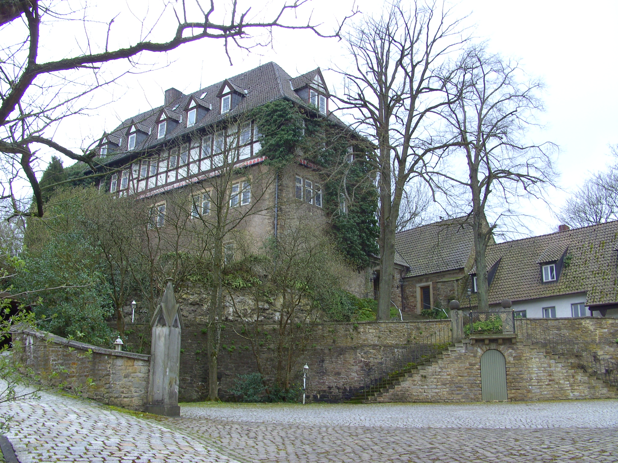 Arensburg Castle with courtyard and entrance flight of stairs